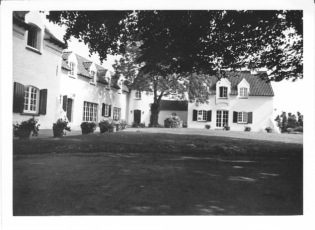 One of villas in Flemish style built by architect Francis Bonaert